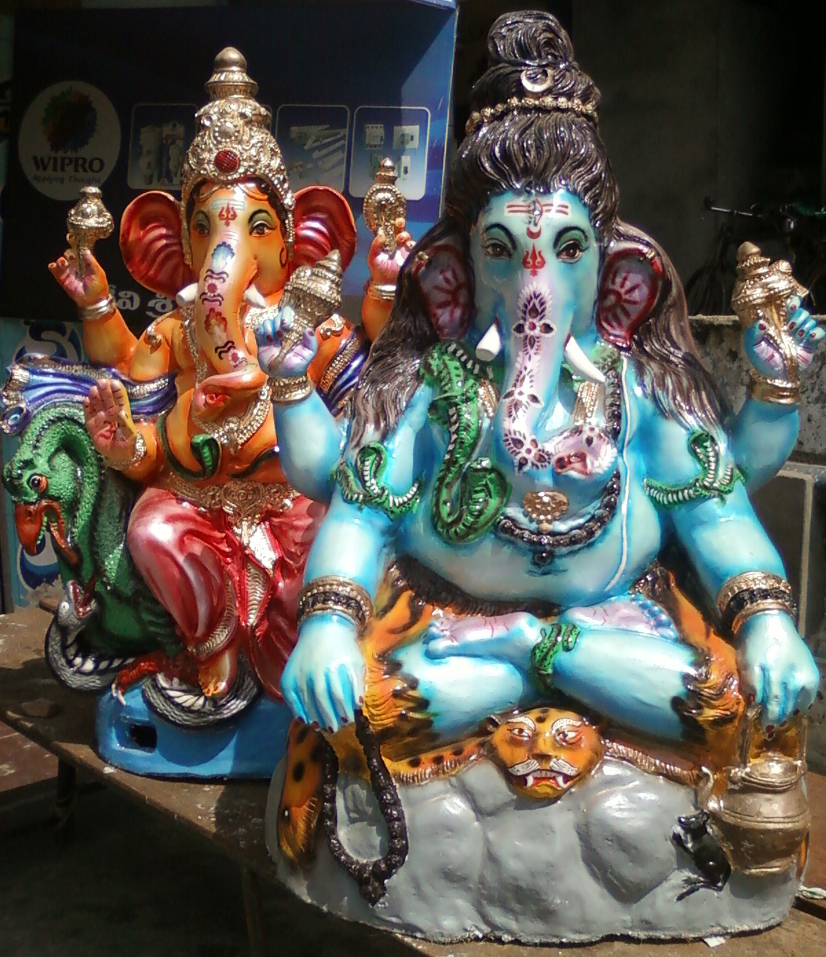 Ganesha Idols during Ganesh Chaturthi Festival at Thagarapuvalasa, Visakhapatnam district